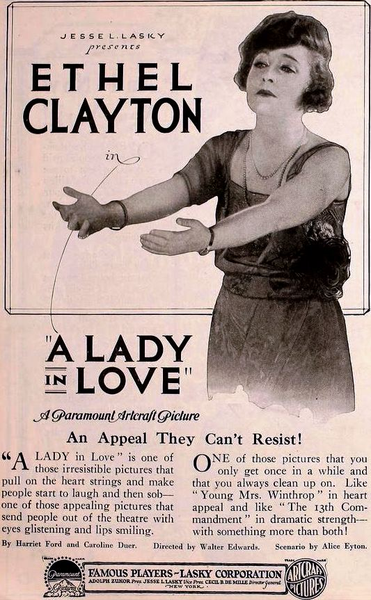 Ad for the American film A Lady in Love (1920) with Ethel Clayton, on page 4246 of the May 22, 1920 Motion Picture News.